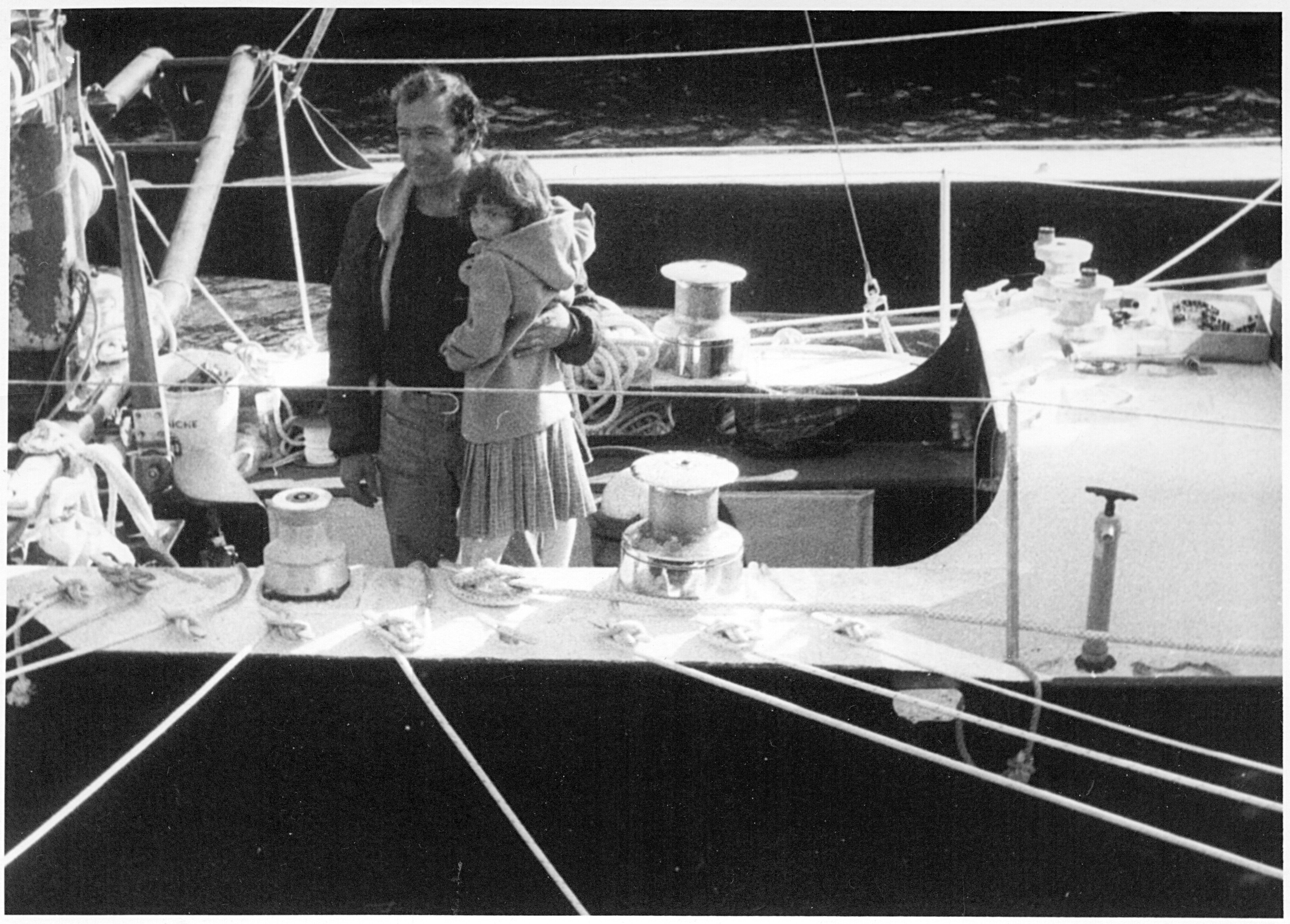 Alain Colas, some day before the departure of the first Route du Rhum, Saint-Malo (France).